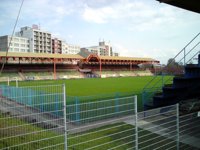 MFK Havirov Stadium.